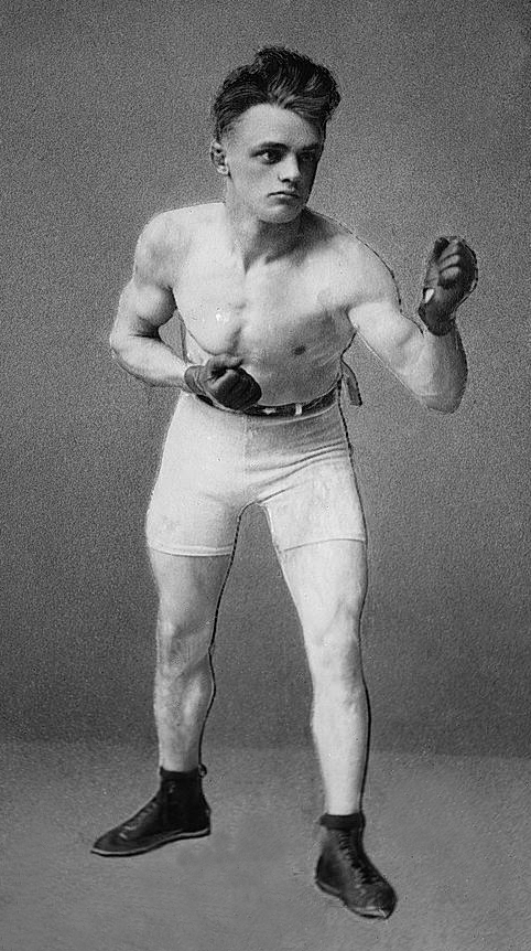 Kid Williams (1893-1963), born John Gutenko in Copenhagen, Denmark, was bantamweight world champion in 1914.